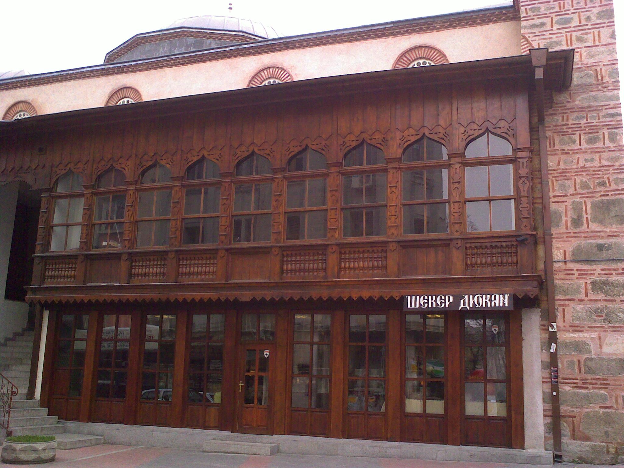 Plovdiv